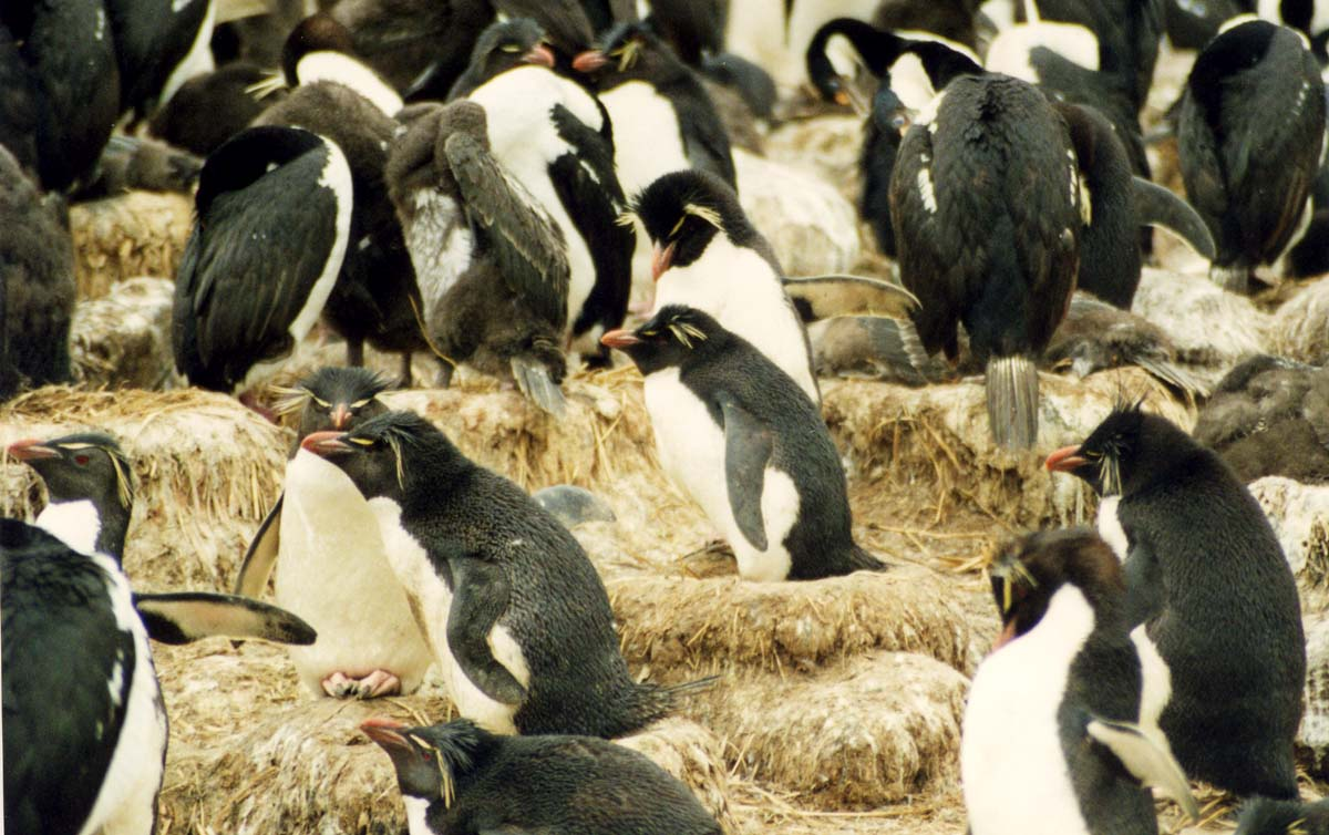 Photo of Eudyptes chrysocome (rockhopper penguin) rookery, New Island, Falkland Islands